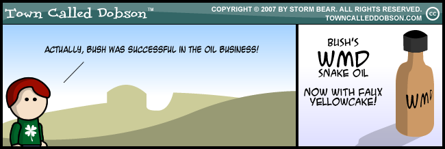 Serves as an example of the webcomic "Town Called Dobson".